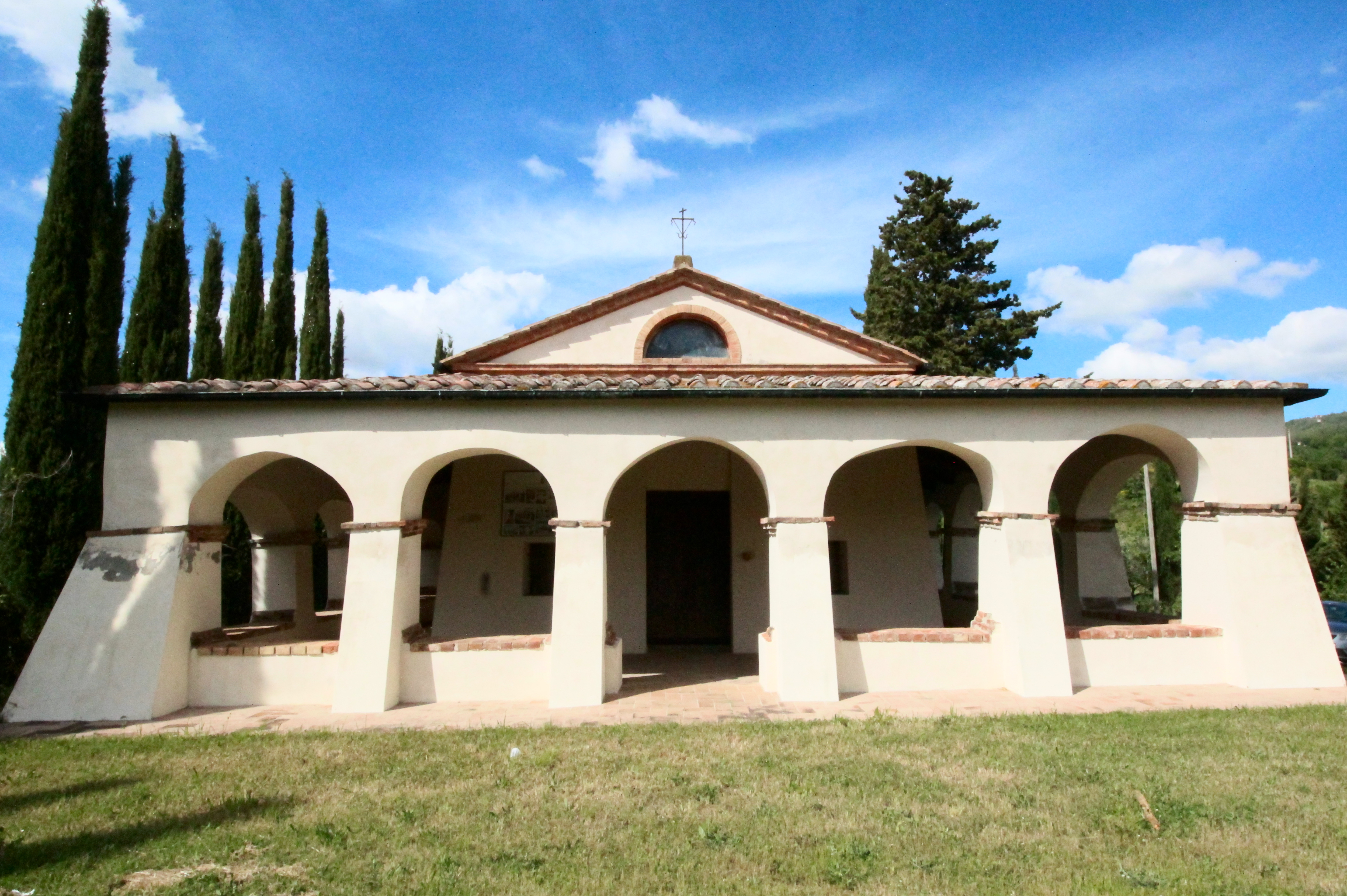 Church and Sanctuary Madonna del Libro, near La Leccia, village in the territory of Castelnuovo di Val di Cecina, Province of Pisa, Tuscany, Italy